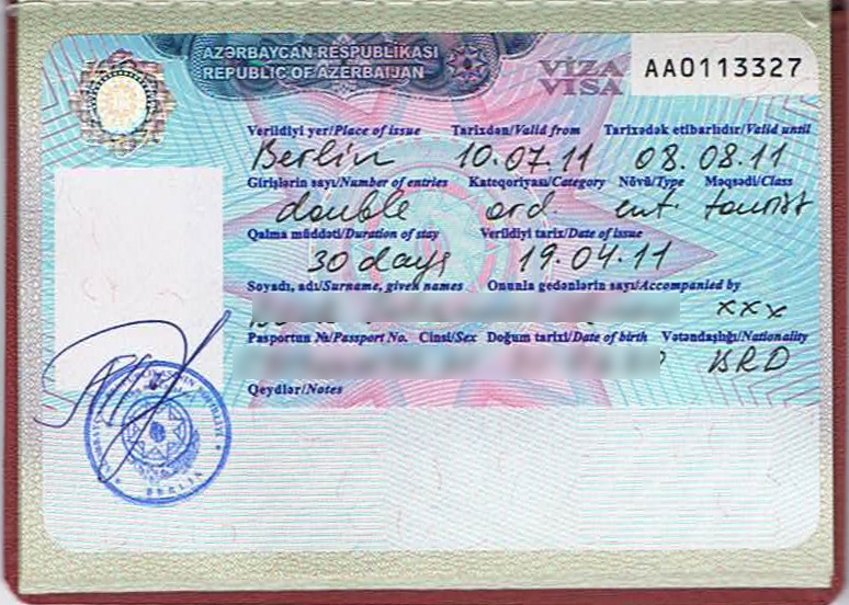 A visa from the Republic of Azerbaijan